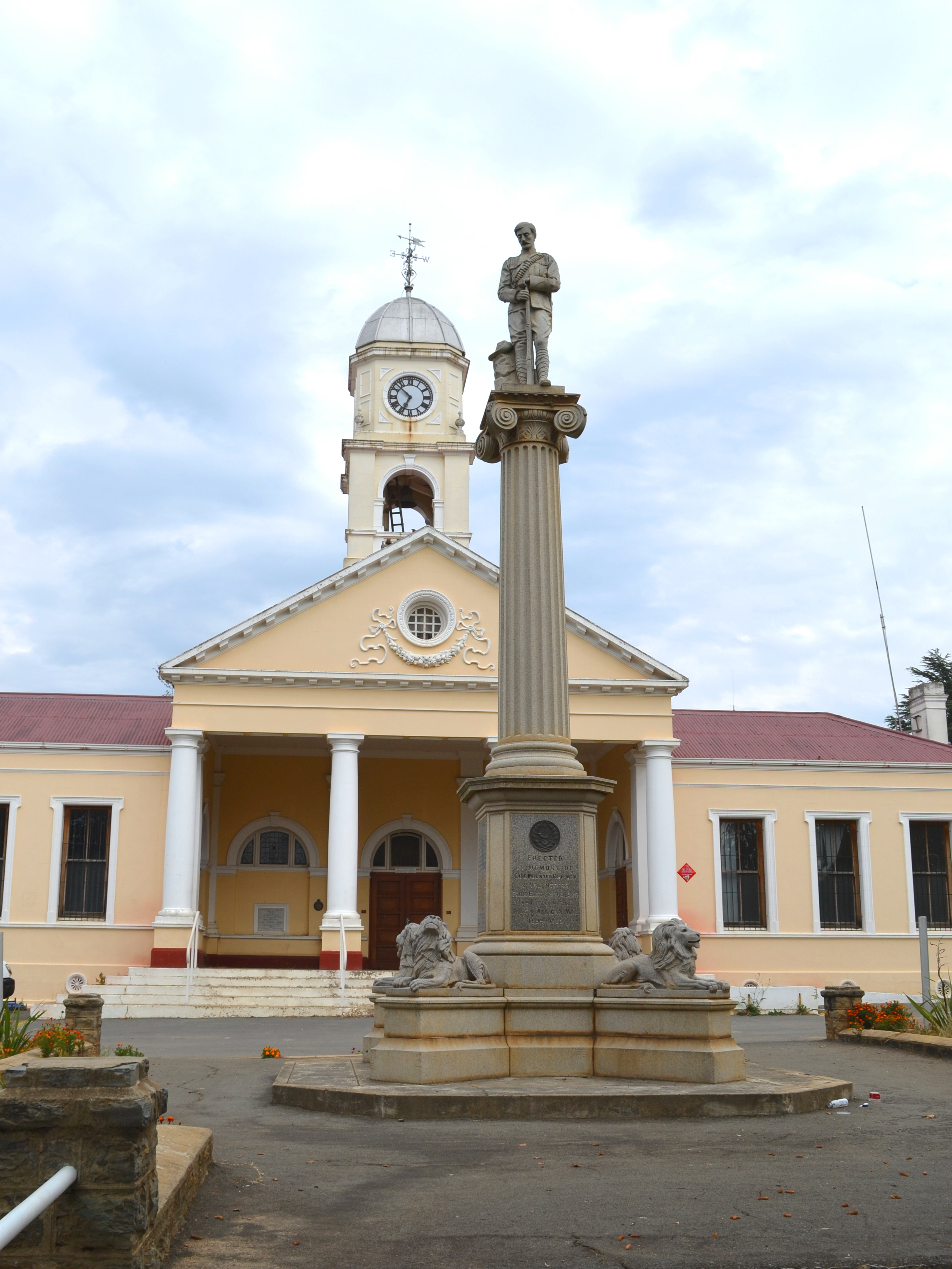 Kokstad, Kwa-Zulu Natal. This media shows a South African Protected Site with SAHRA file reference 9/2/423/0008.